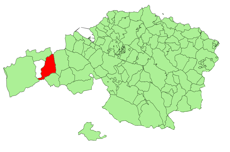 Artzentales municipality in the province of Biscay